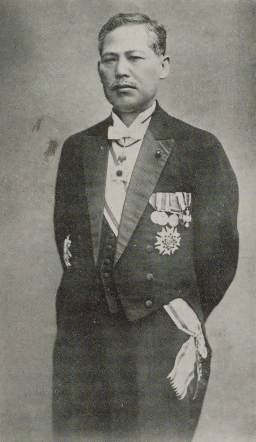 Portrait of Hanai Takuzo (花井卓蔵, 1868 – 1931)